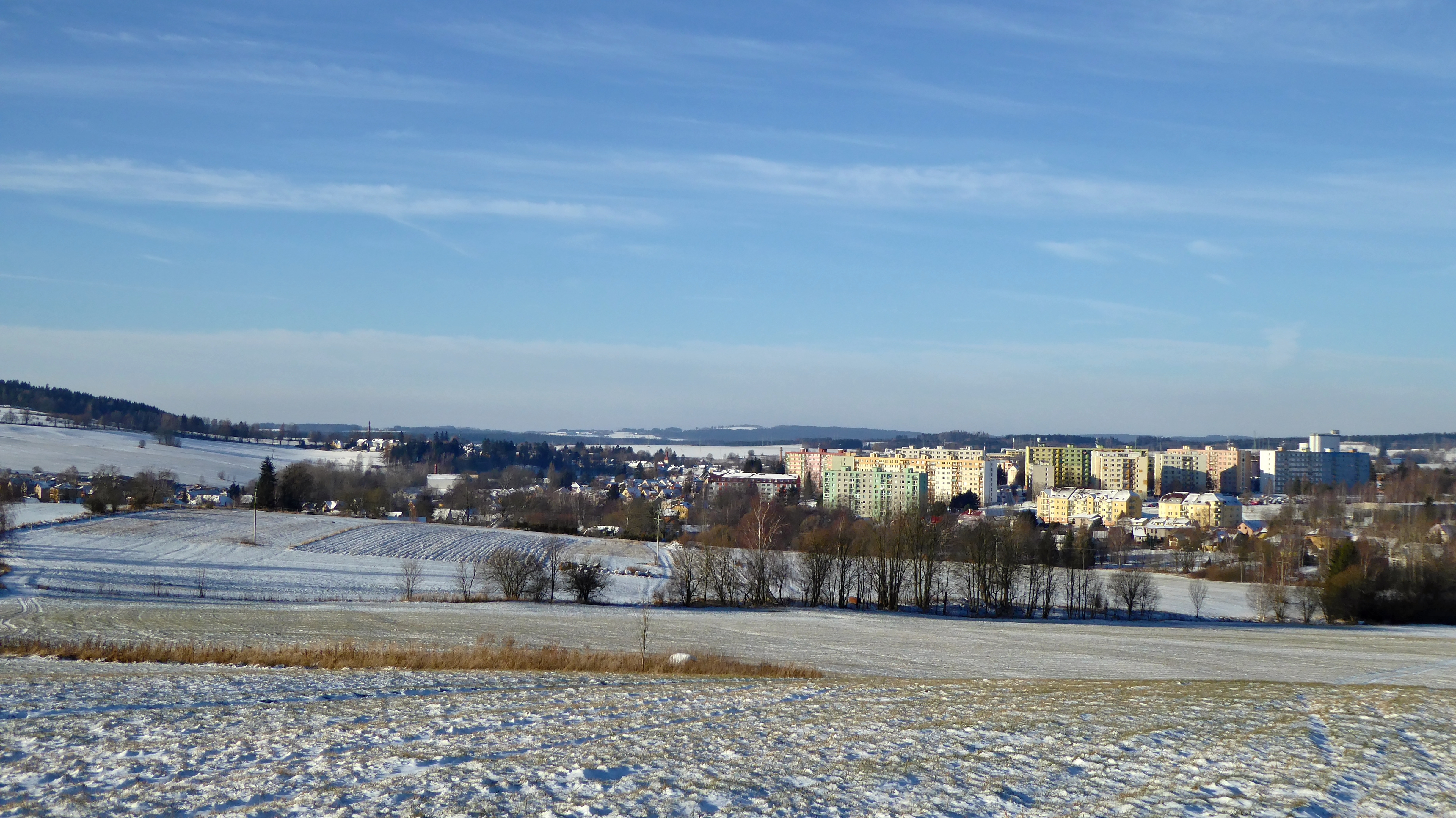 The town Hlinsko, view from the locality "K Pláňavům" (620 m) on the northwest slope of "Pešava" (697 m). To the left of the housing estate is the older town, above it on the horizon the peak "Vestec" (668 m) in of Protected Landscape Area Železné hory. Approximately in the middle of the photo the original city center, in the shoot the visible tower of the town hall (Poděbradovo square). To the left is the hillside of the upland "Na skalce" (637 m), with the path to the cemetery (the statue of Master Jan Hus). In the housing estate is residential buildings from the second half of the 20th century. Photo location: Czechia, Pardubice Region, town Hlinsko, geomorphological district "Kameničská" Highlands, the Iron Mountains. External link: The town Hlinsko – web sites see